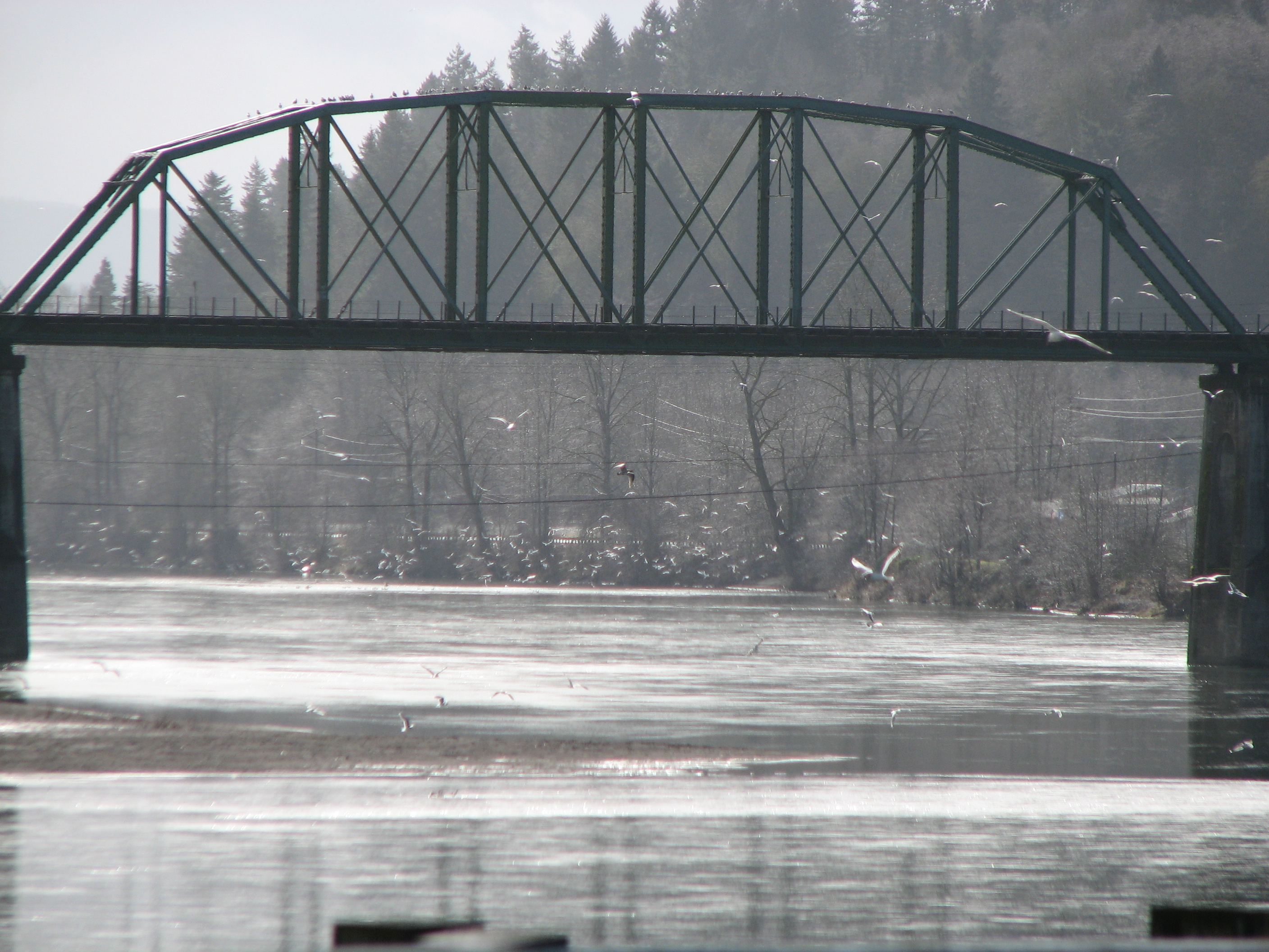 When the smelt spawn in the Cowlitz River, the gulls go into a crazy feeding frenzy that lasts for weeks. Kelso, WA, where the photo was taken, is known as the "Smelt Capital of the World."